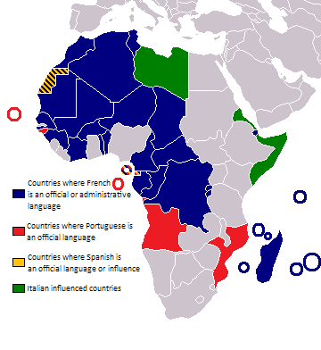 Romance-speaking and Romance-influenced countries of Africa